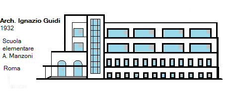 Alessandro Manzoni primary school in Rome; 1932 project by Arch. Ignazio Guidi